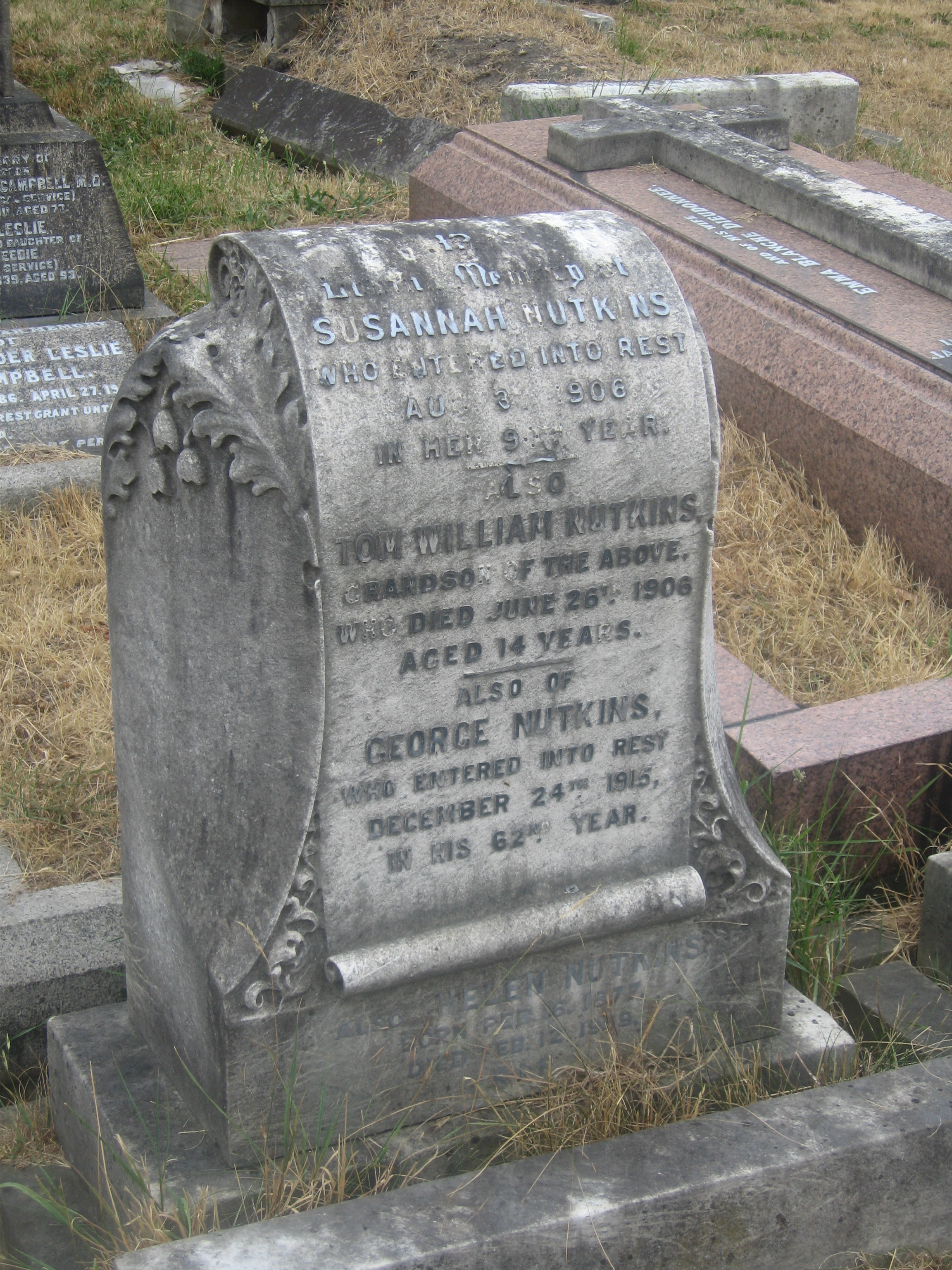 Kittybrewster 15:57, 29 July 2006 (UTC)